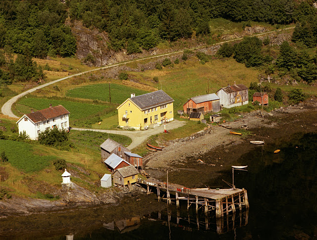 The shop and harbour in Saltvikhamn, Mosvik. Aerial photo from 1961